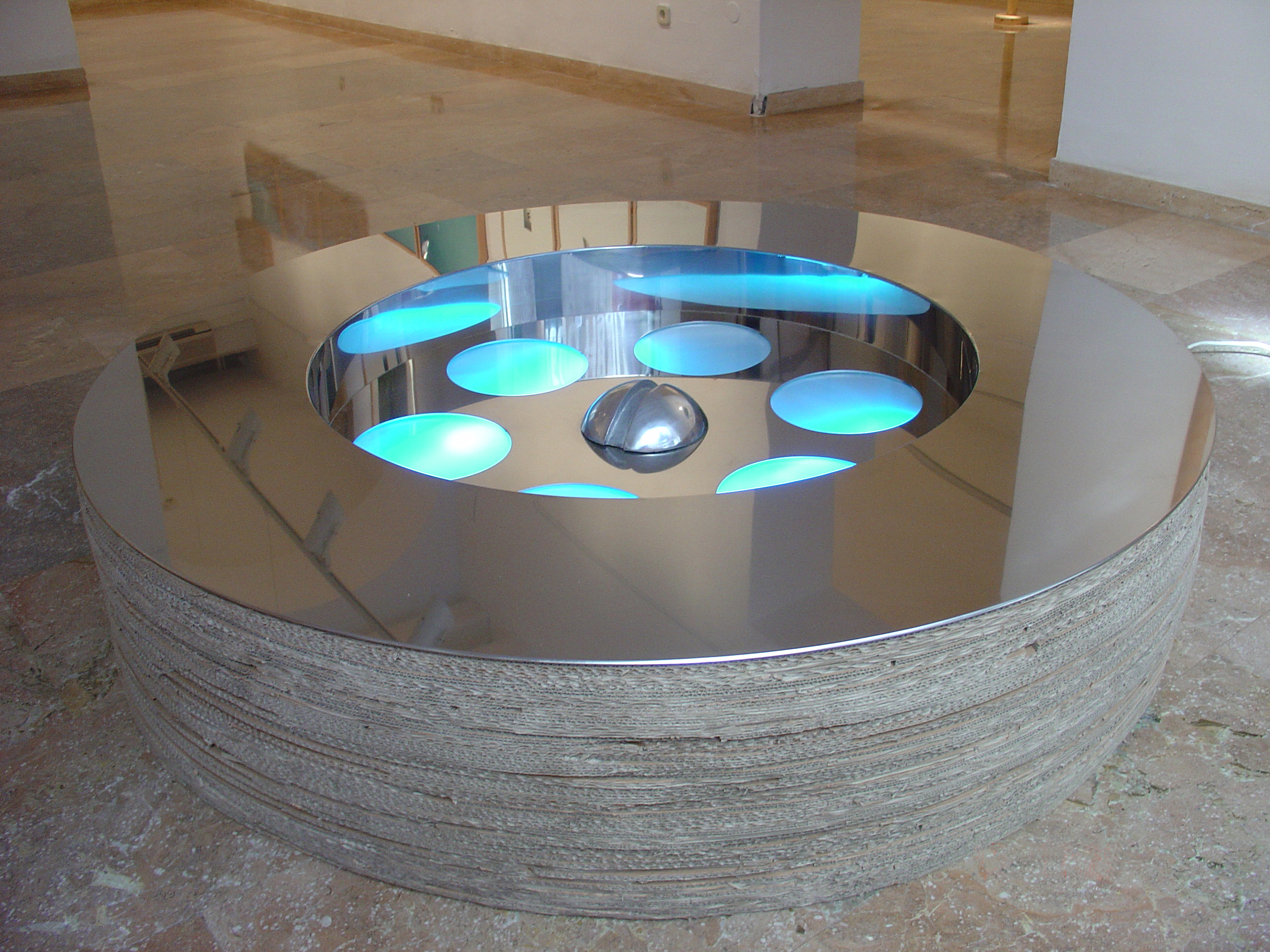 This work is part of the contemporary art collection of the Museum of Modern Art of Tarragona. It was the winner of the 32nd Julio Antonio sculpture prize.